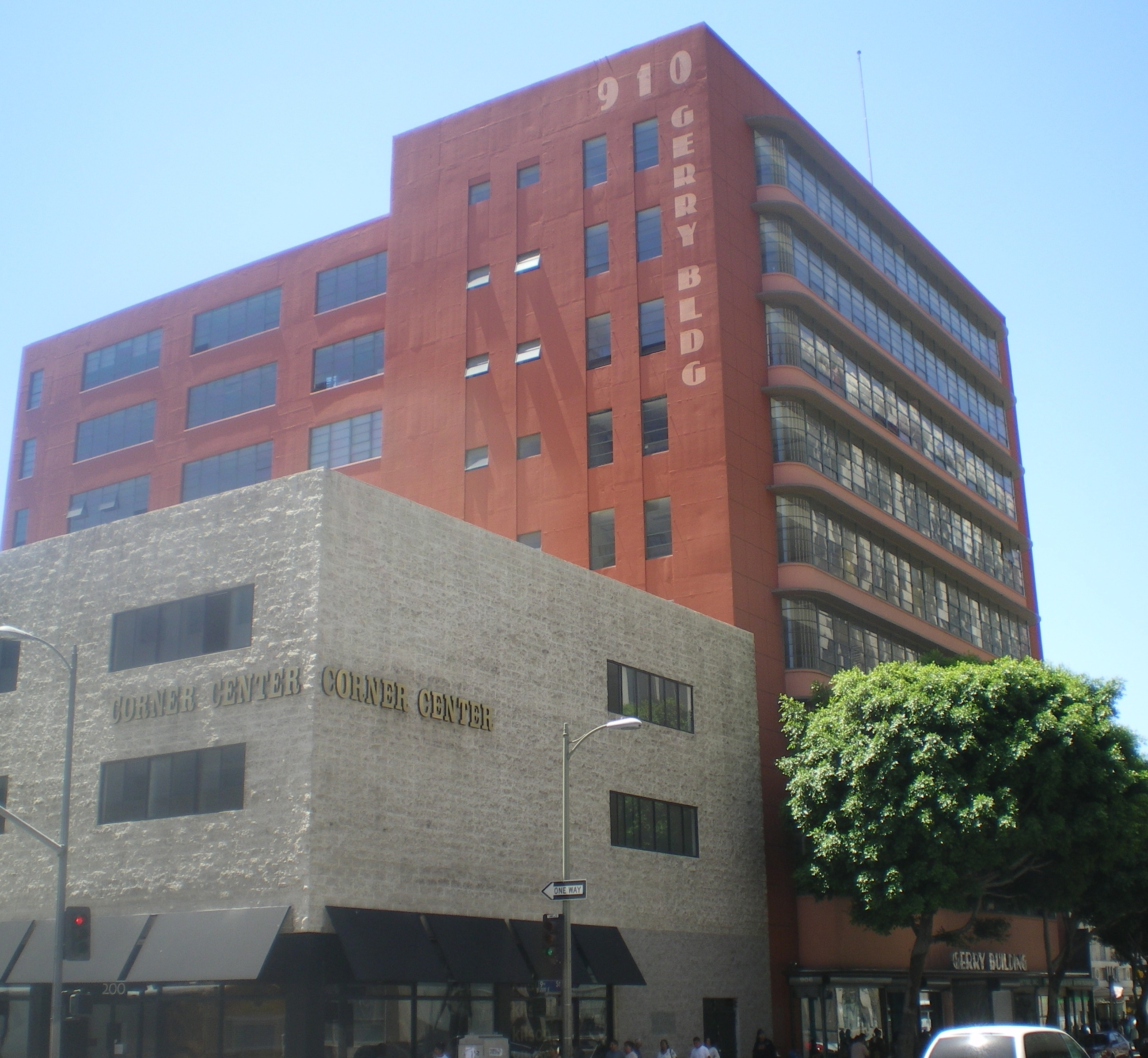 Gerry Building, 612 S. Flower St., Los Angeles, California